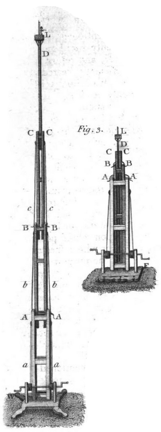 Fig 3 of Plate III: Nicholas Collin: Description of a Speedy Elevator. In: Transactions of the American Philosophical Society 4, 1799, pp. 519–525